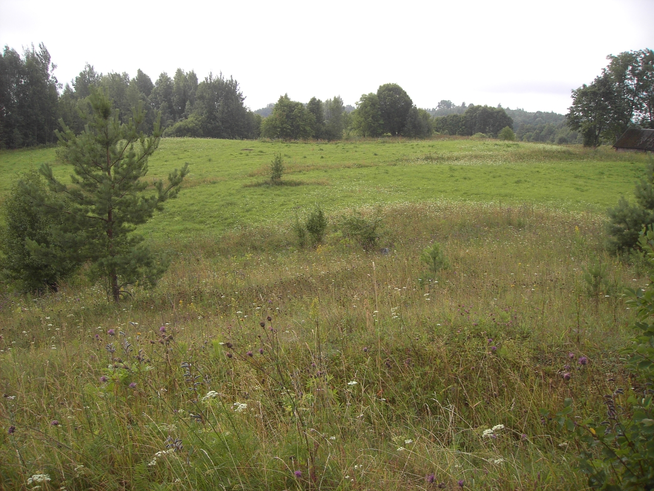 A view from the Nevaišiai Hill